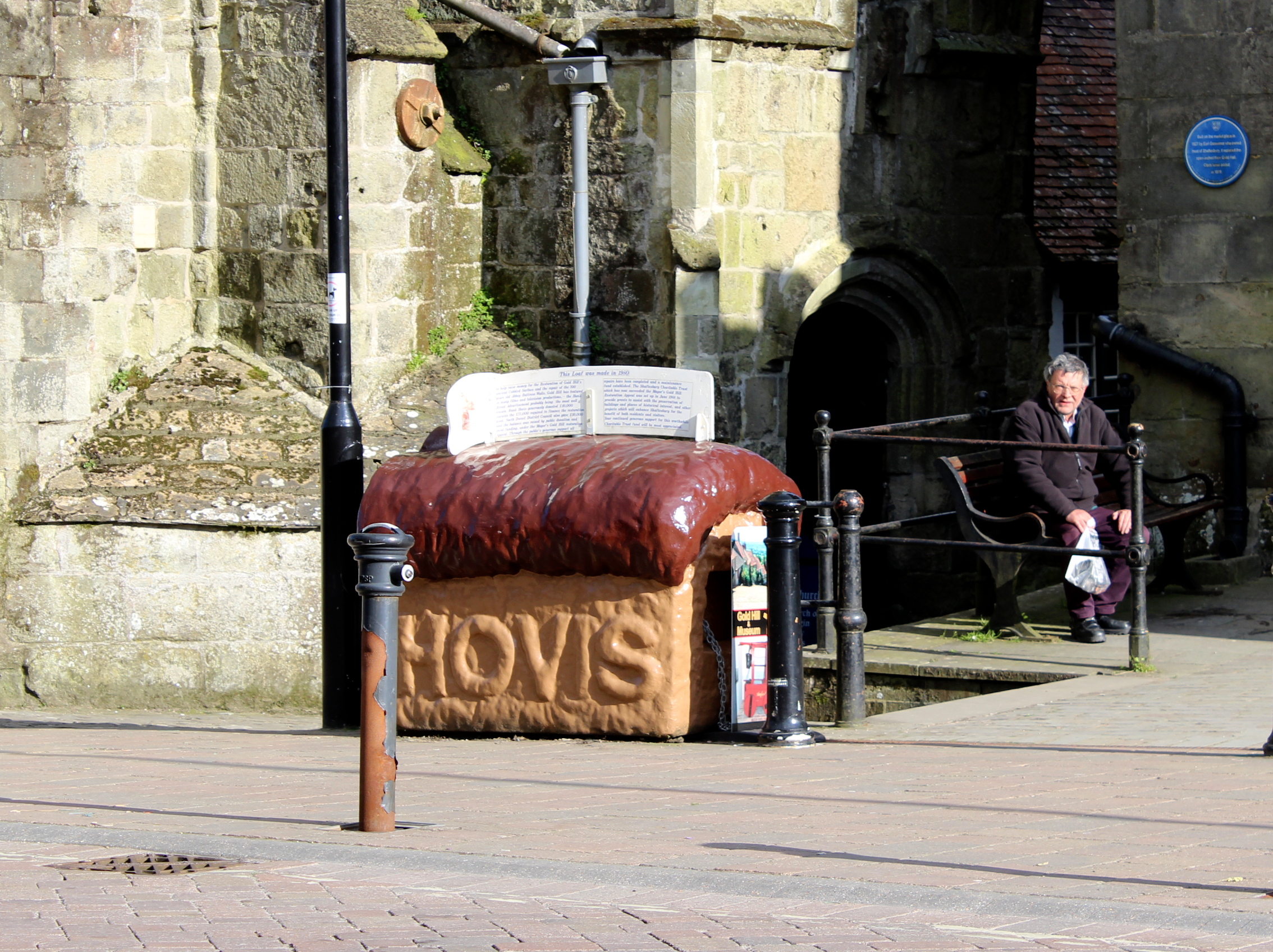 A monument for Hovis bread in Shaftesbury, Dorset, just before Gold Hill.